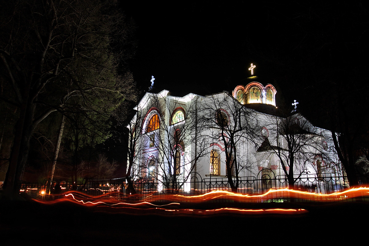 Easter Night